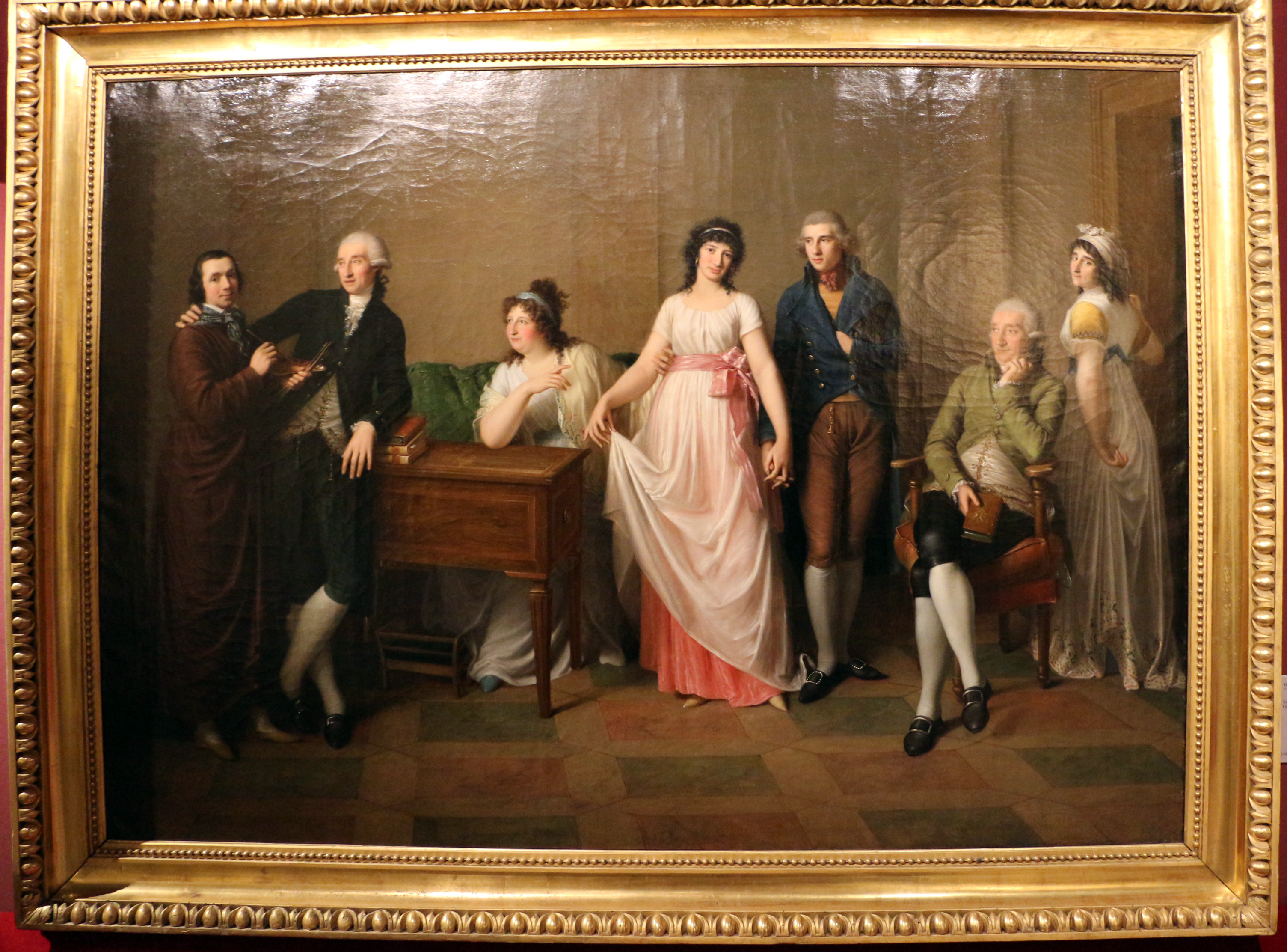 Il Tesoro d'Italia (exhibition at Expo 2015)Il Tesoro d'Italia (exhibition at Expo 2015)